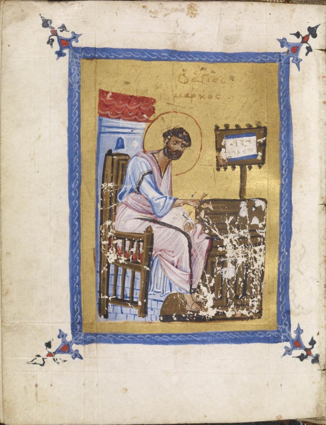 Folio 91 verso with portrait of Evangelist Mark